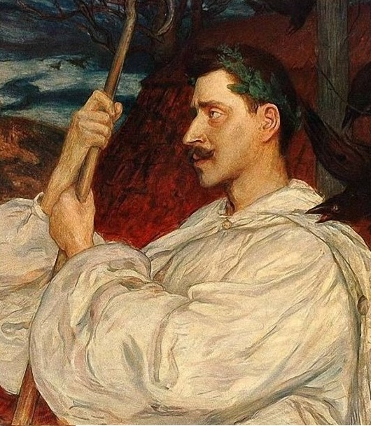 Detail of a portrait by Hanna Pauli of the author Verner von Heidenstam as Hans Alienus, a figure he created for a novel